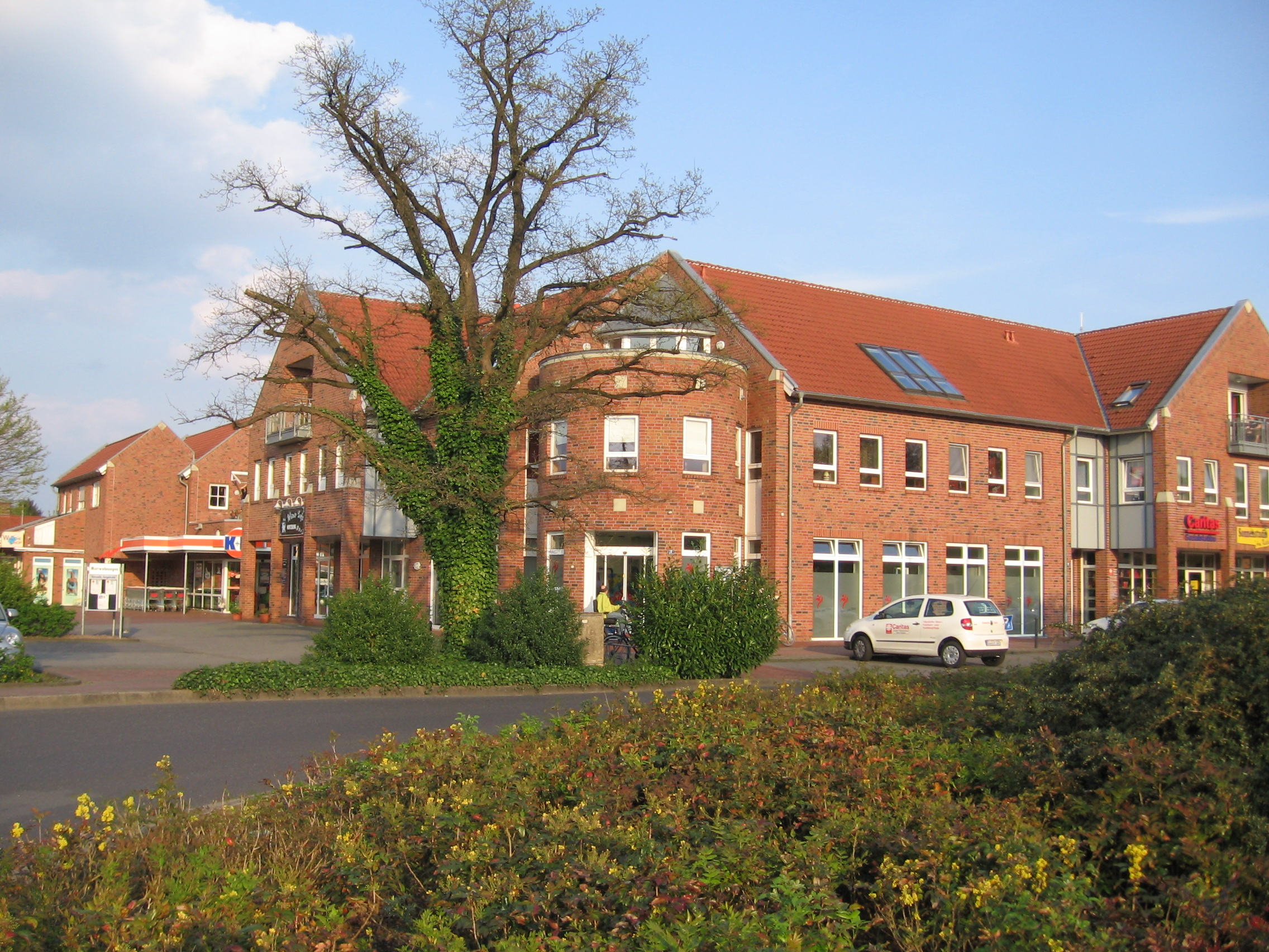 Commercial building in the center of the german municipality Twist